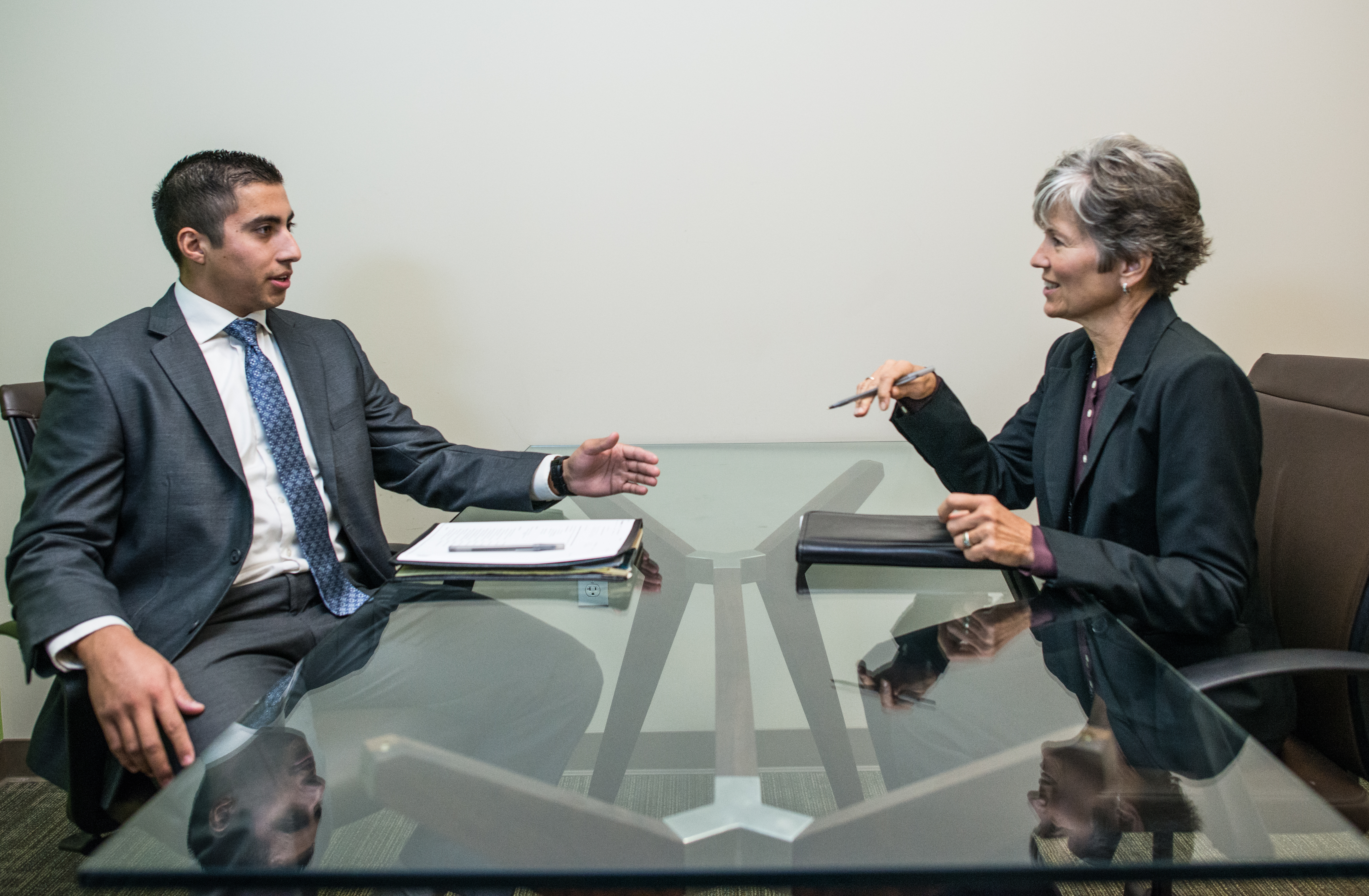 It shows what a formal interview looks like